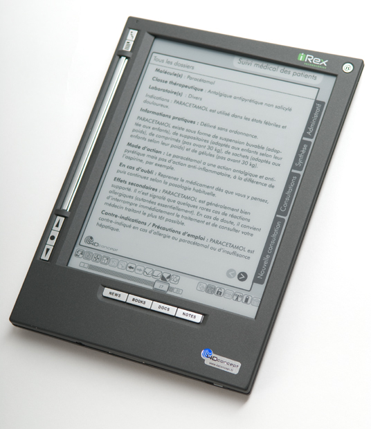 iRex iLiad e-paper device